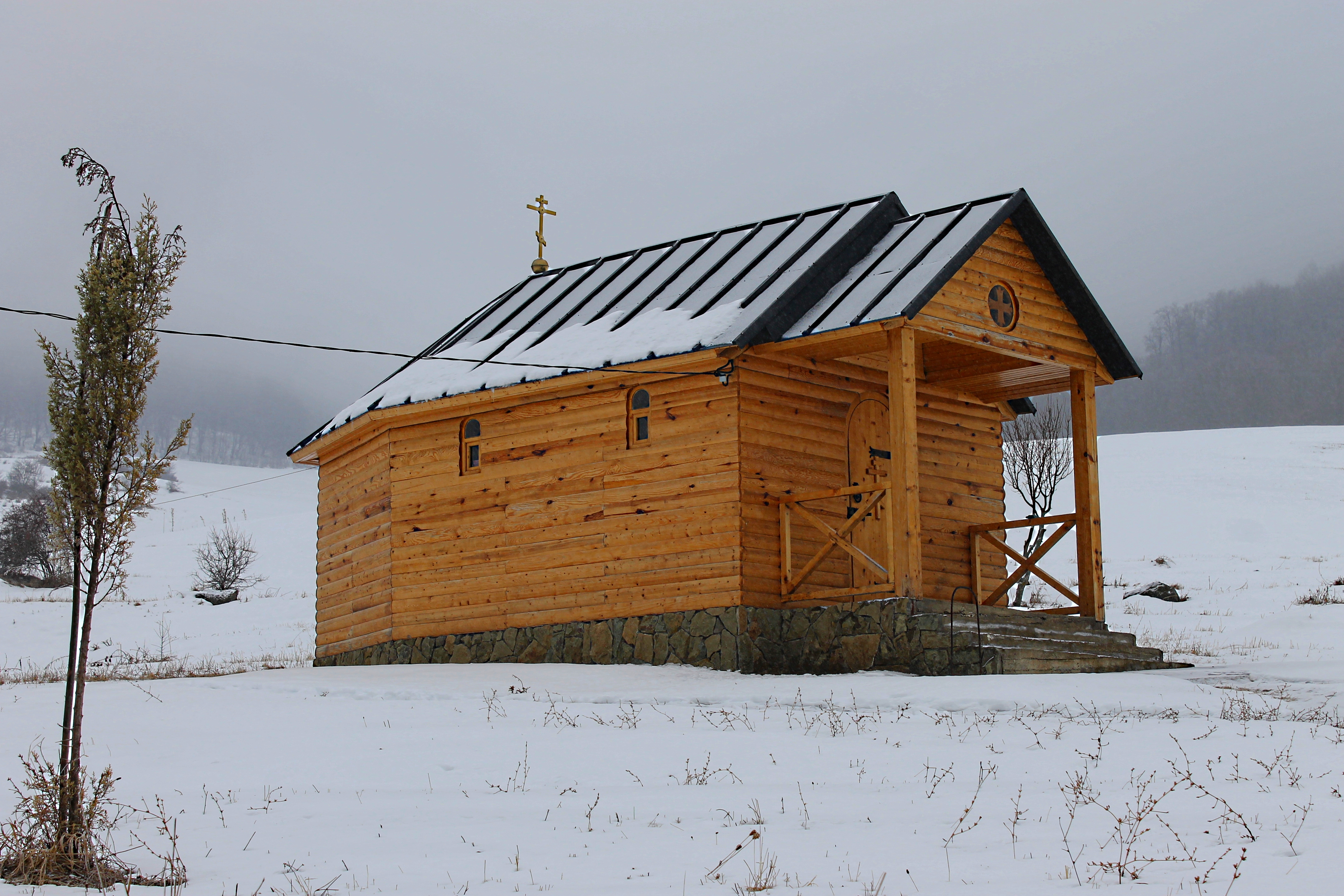 Akhkerpi st. seraphim saroveli church